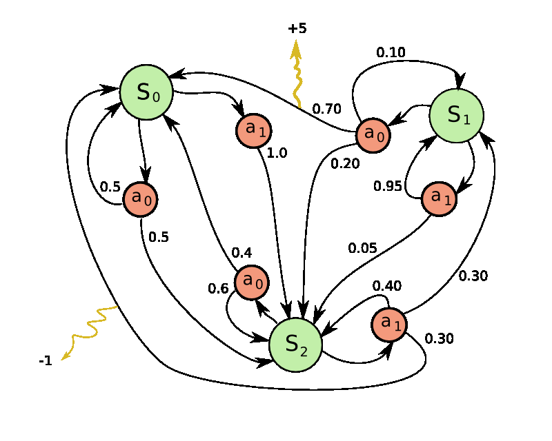 Example of Markov Decision Process (MDP) transition automaton